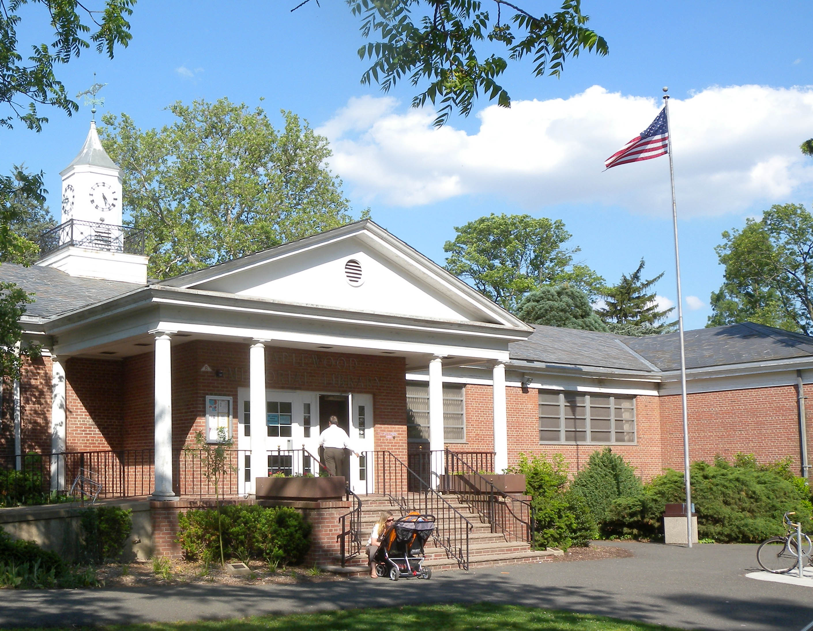 Looking east at Maplewood Public Library on a mostly sunny afternoon.